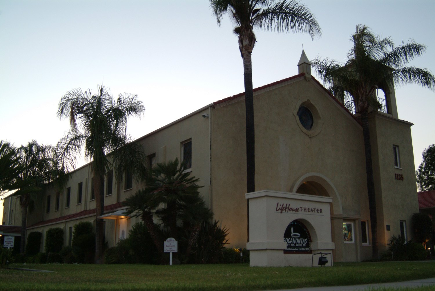 LifeHouse Theater front view